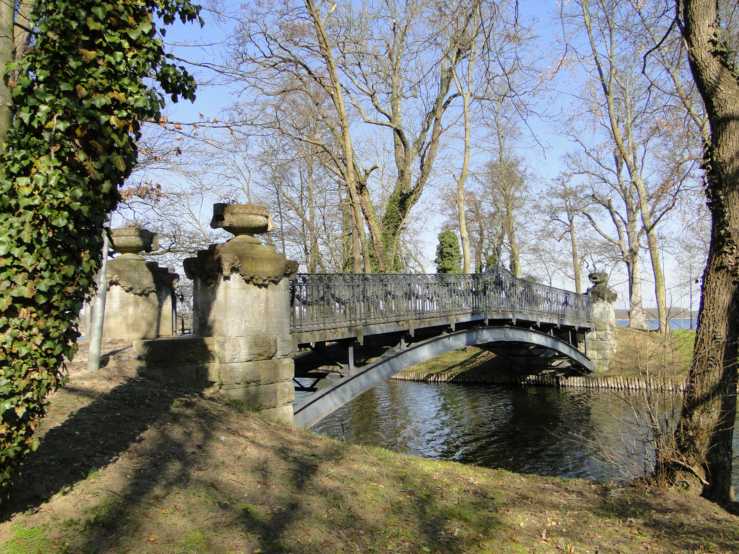 Bridge to the Liebesinsel (love isle) at Castle in Mirow, disctrict Mecklenburg-Strelitz, Mecklenburg-Vorpommern, Germany